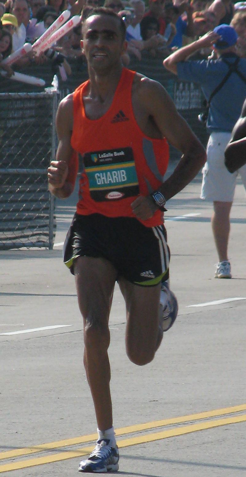 Chicago Marathon, (Jaouad Gharib)